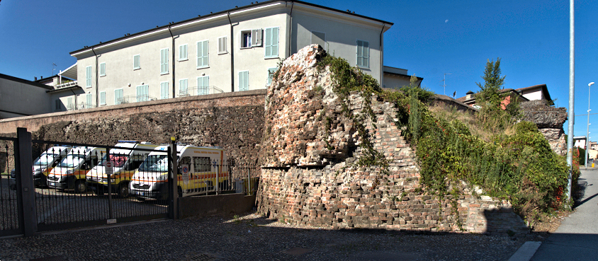 Ruins of the tower "Torrion Foscolo", along the Venetian walls of Crema